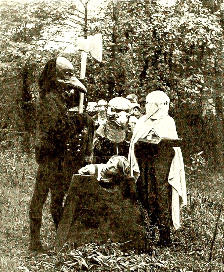 Still from 1911 film An Old-Time Nightmare showing scene of an actor dressed in an all-black costume portraying "Crow", Birdland's executioner; beside him, with his head on a chopping block, is "Tommy", a boy whom a jury of birds convicted and sentenced to death for stealing eggs from a nest; "Minister Dove” (right with book) and birds of other species observing in rear. Still published in The Moving Picture World, September 16, 1911, p. 778.